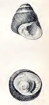 Tegula tridentata (Potiez & Michaud, 1838); family Tegulidae